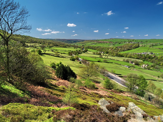 Rivelin Valley. The Rivelin Valley viewed from the crags above Bell Hagg. The road is the A57, which eventually becomes the Snake Pass.